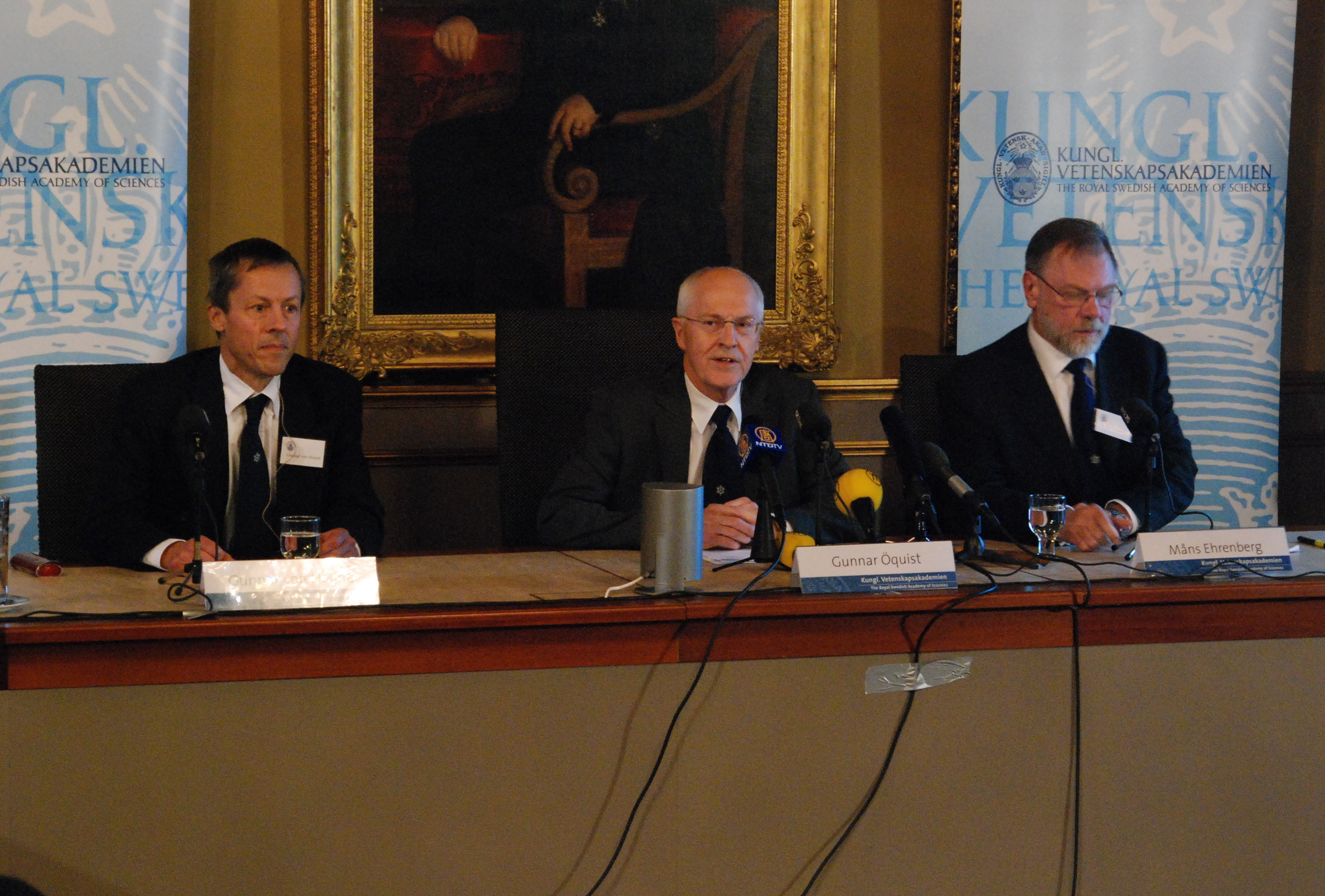 News Conference: Announcement of the Laureates of the Nobel Prize in Chemistry 2008 at the Session Hall of the Swedish Academy of Sciences; Professor Gunnar von Heijne, Chairman of the Nobel Comittee for Chemistry, Prof. Gunnar Öquist, Permanent Secretary of the Swedish Academy of Sciences; Prof. Måns Ehrenberg, Nobel Comittee for Chemistry; Gunnar Öquist reads out the names of the Laureates